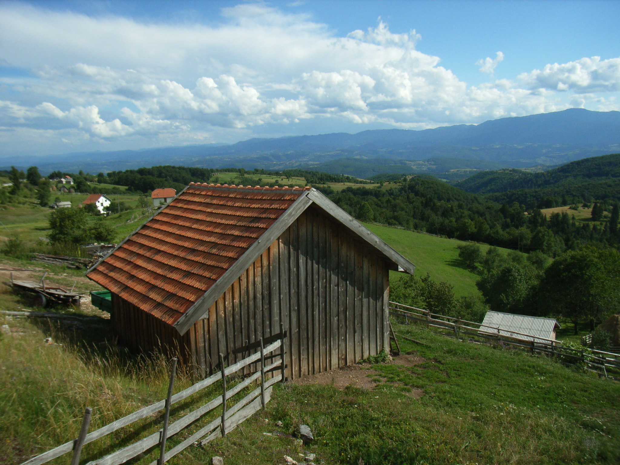 Village in the municipality Pljevlja, Montenegro